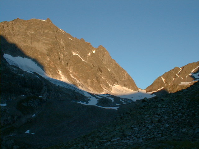 Kuchenspitze (3148m), Kuchenjöchli (2730m), the lower part of Scheibler south ridge in Verwall (Tirol, Austria) as seen from the Darmstädter Hütte, below Kuchenspitze the glacier Großer Kuchenferner.